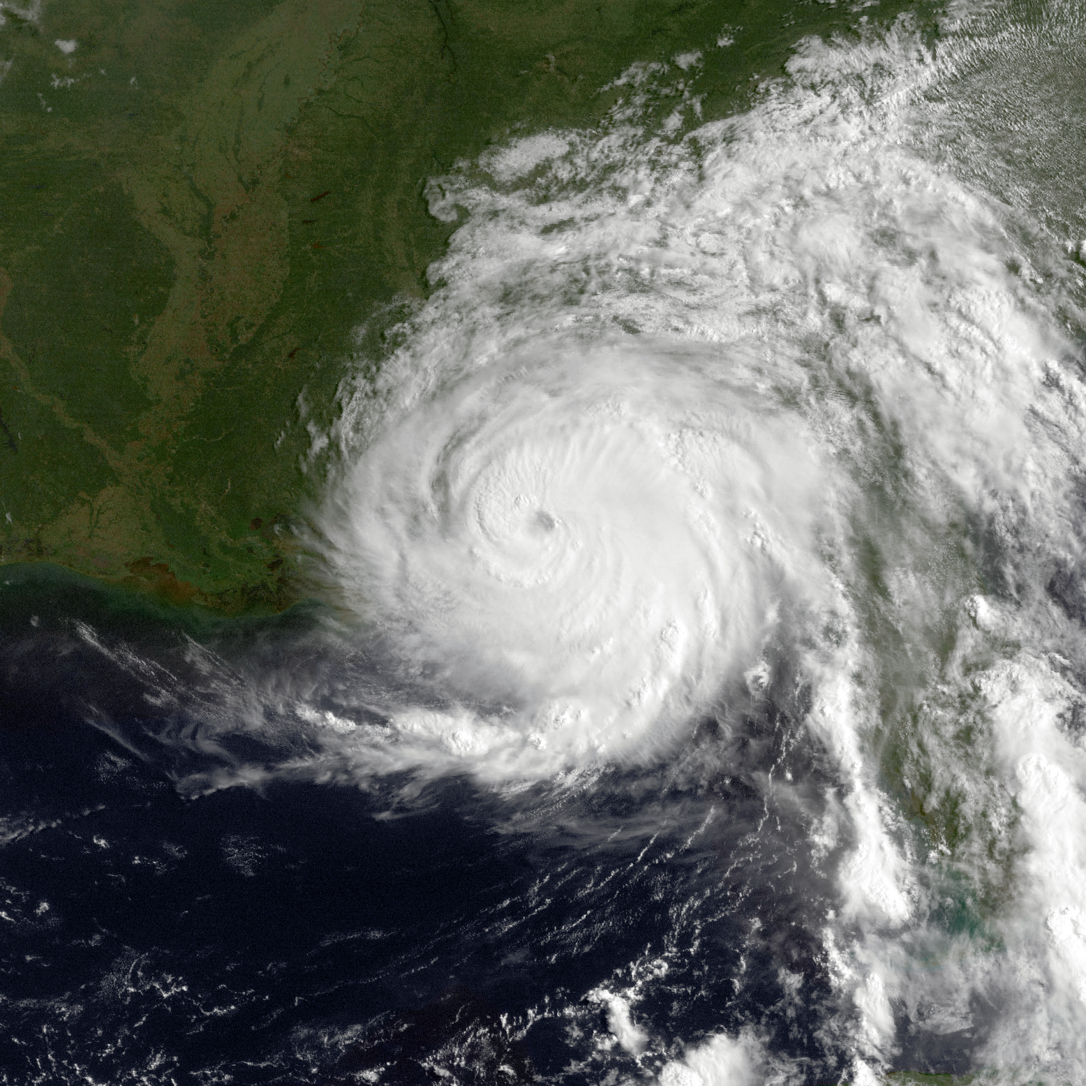 Hurricane Erin at peak intensity shortly before landfall in Florida on August 3, 1995